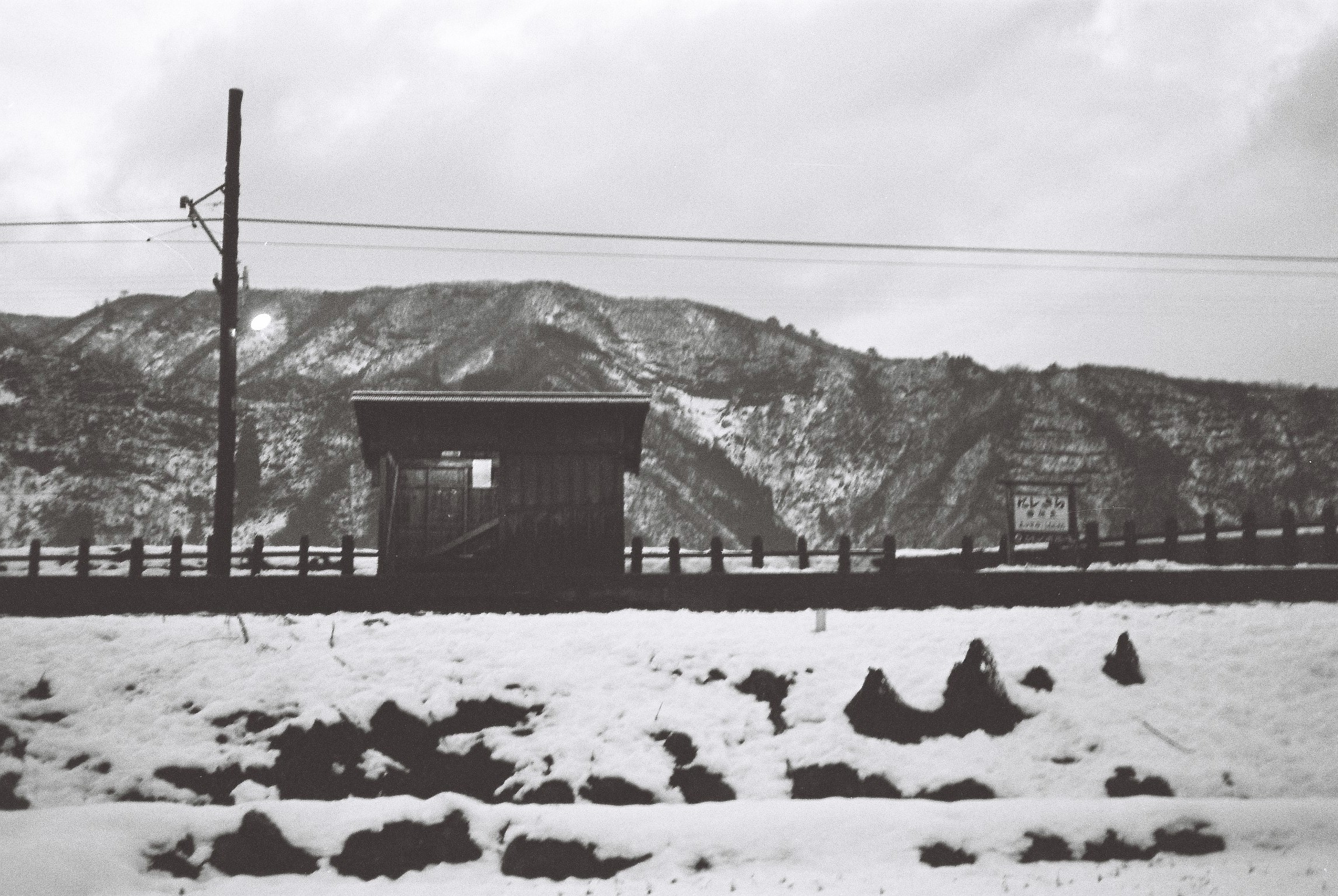 北陸鉄道金名線西佐良駅